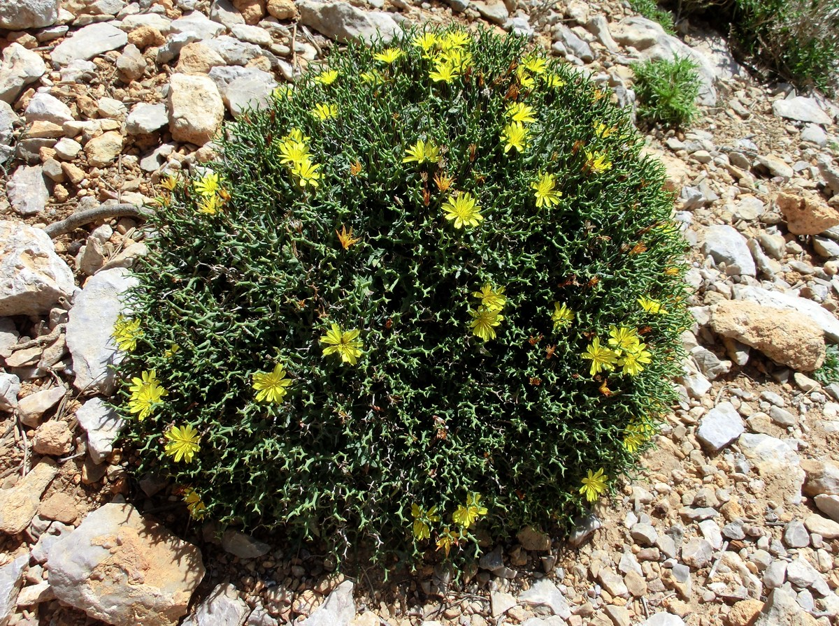 Launaea cervicornis, Habitus . Mallorca, Cap Formentor.